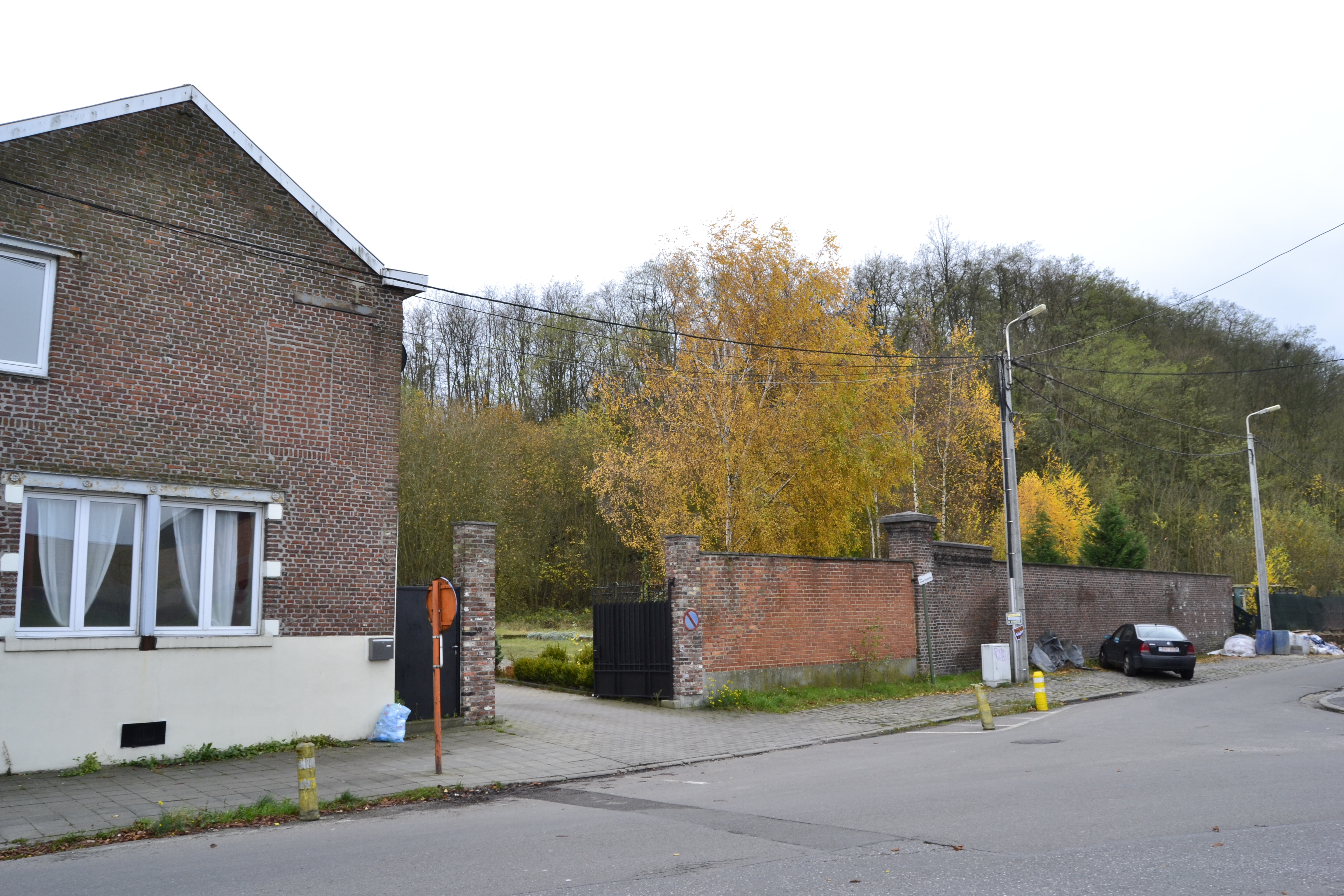 Ancient Bonnier coal mine in Grace-Hollogne, Liège, Belgium